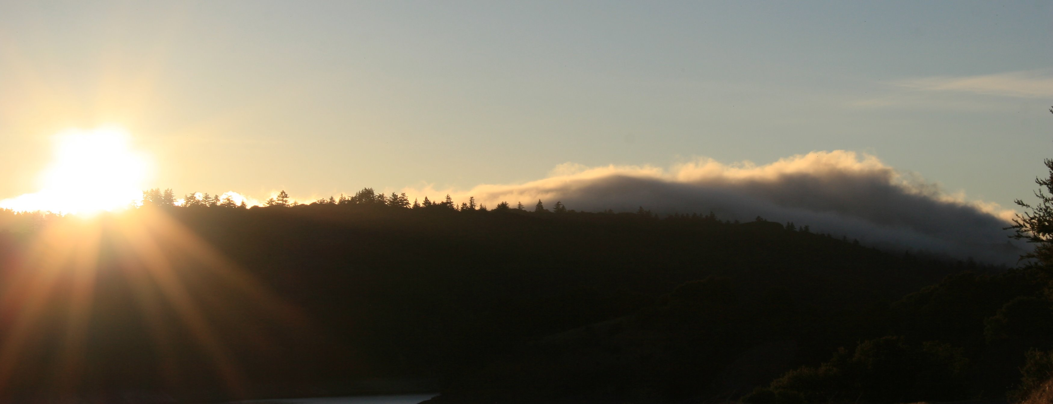 Sunset at Crystal Springs County Park, located in Palo Alto, California.